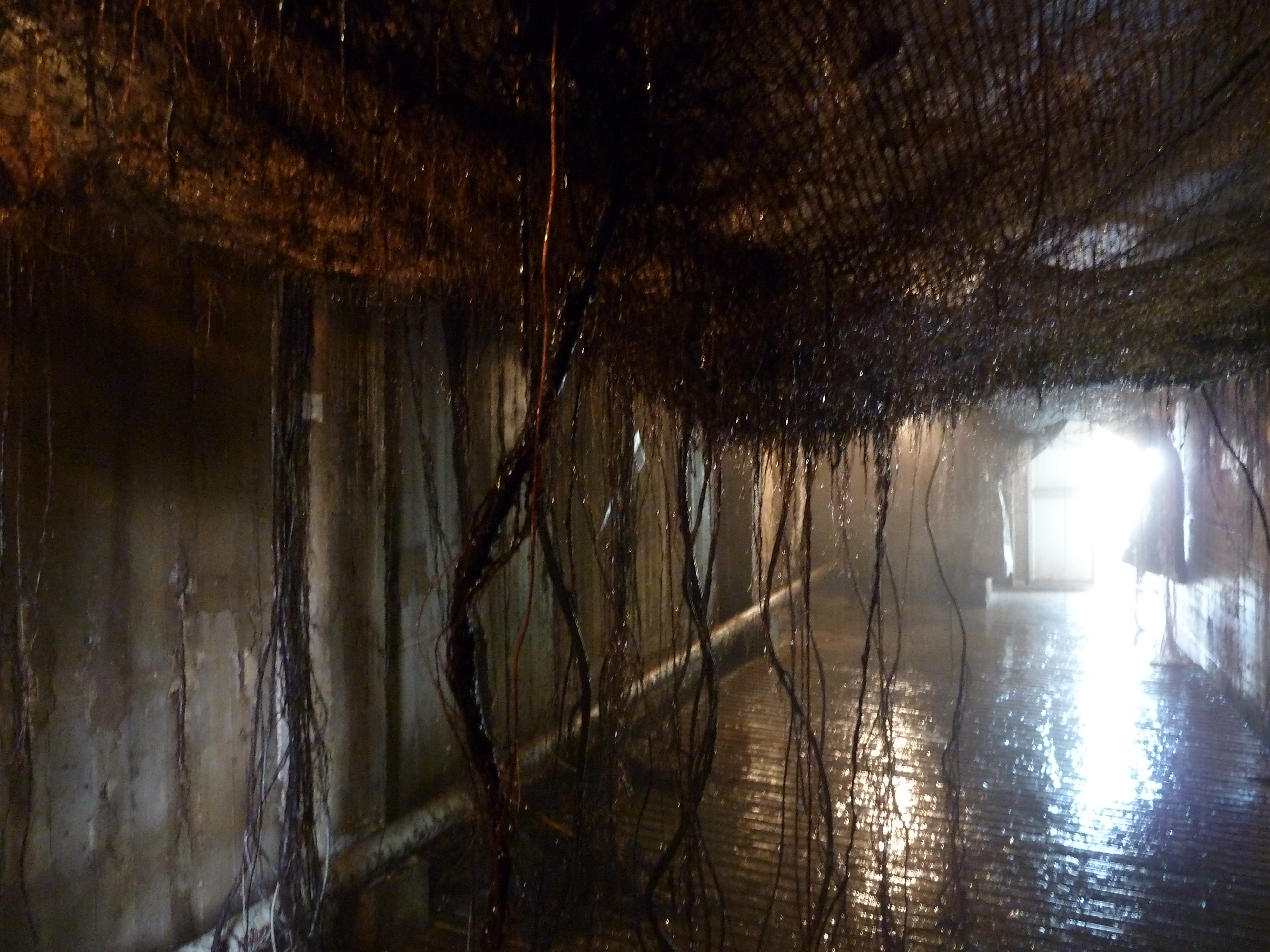 The Sarah Racine Root Laboratory, Tel Aviv University Botanic Gardens